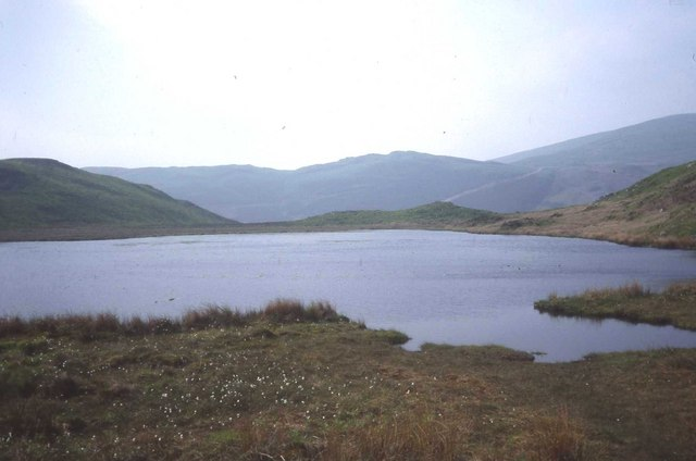 Llyn Barfog Also known as The Bearded Lake, this pond gives the appearance of being suspended on top of the hill.